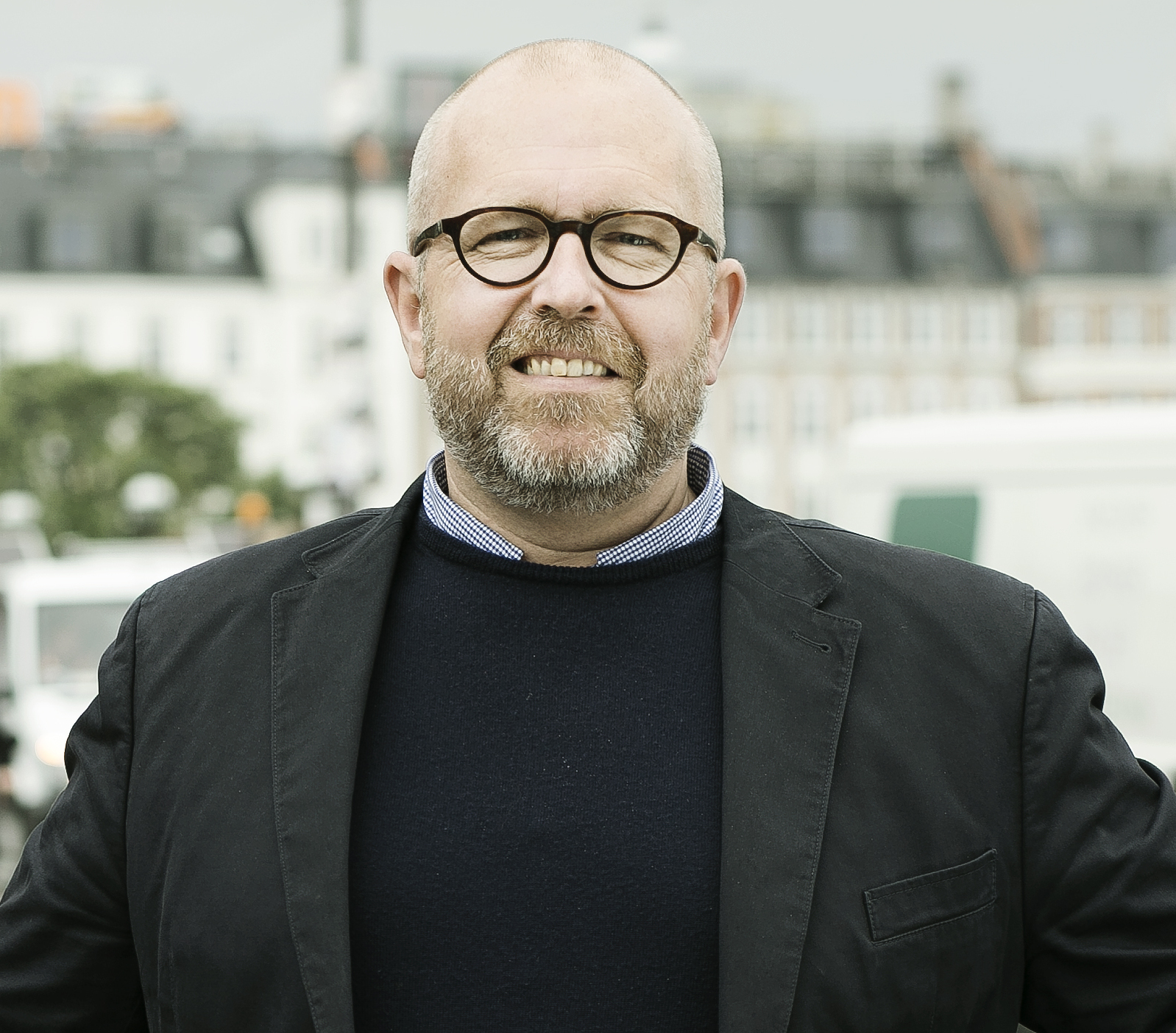 Klaus Bondam, Danish Cyclist's Federation